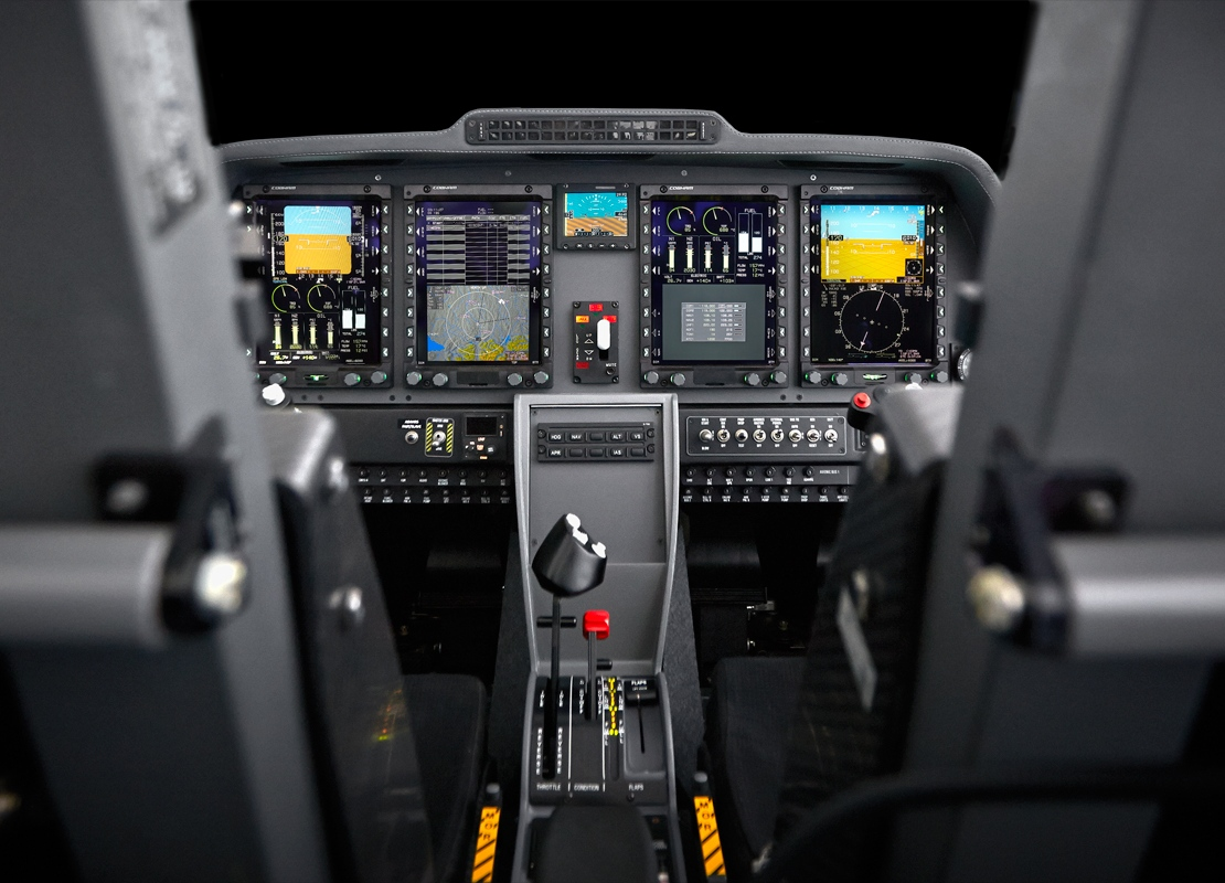 The Digital Cockpit of the G 120TP consists of 4 EFIS Genesys Aerosystems IDU-680.